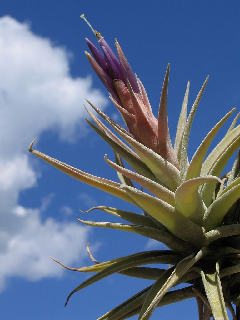 Tillandsia hondurensis in cultivation at the Botanical Garden of Heidelberg, Germany. This image shows the living type plant.